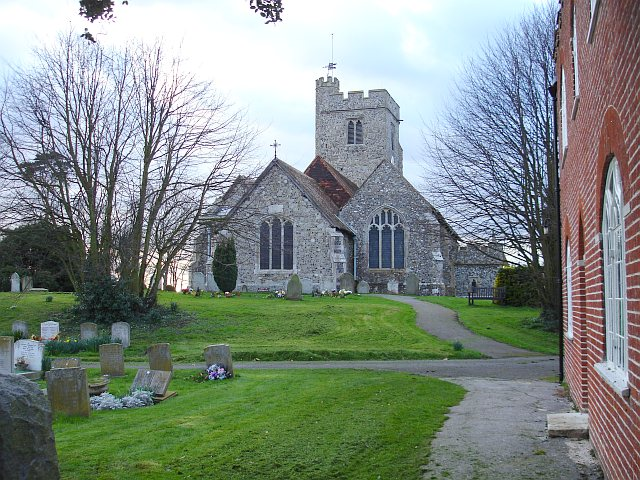 St Michael's, Hernhill Unusual among medieval churches in being all of a piece - the whole structure was rebuilt in about 1450.